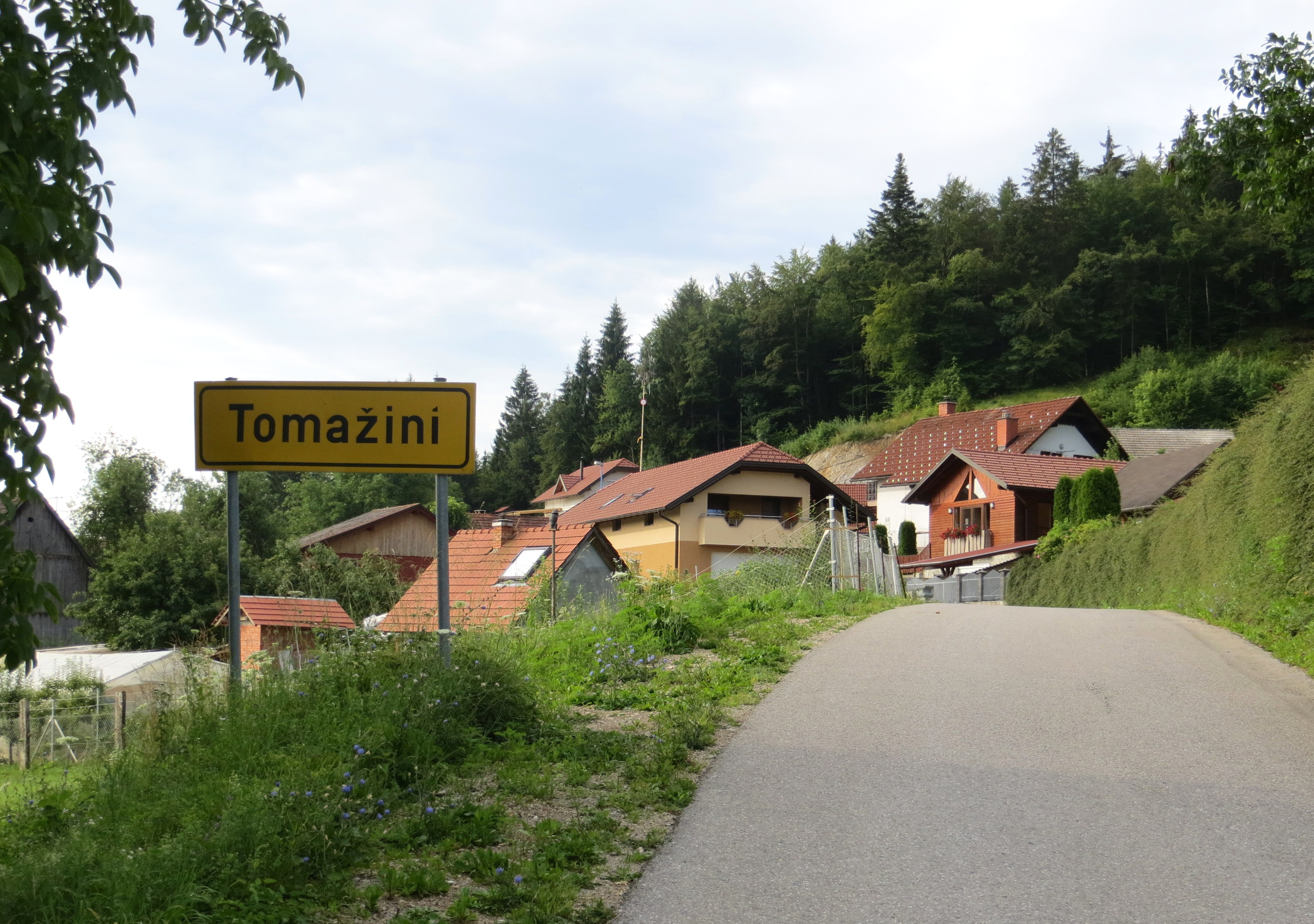 Tomažini, Municipality of Velike Lašče, Slovenia